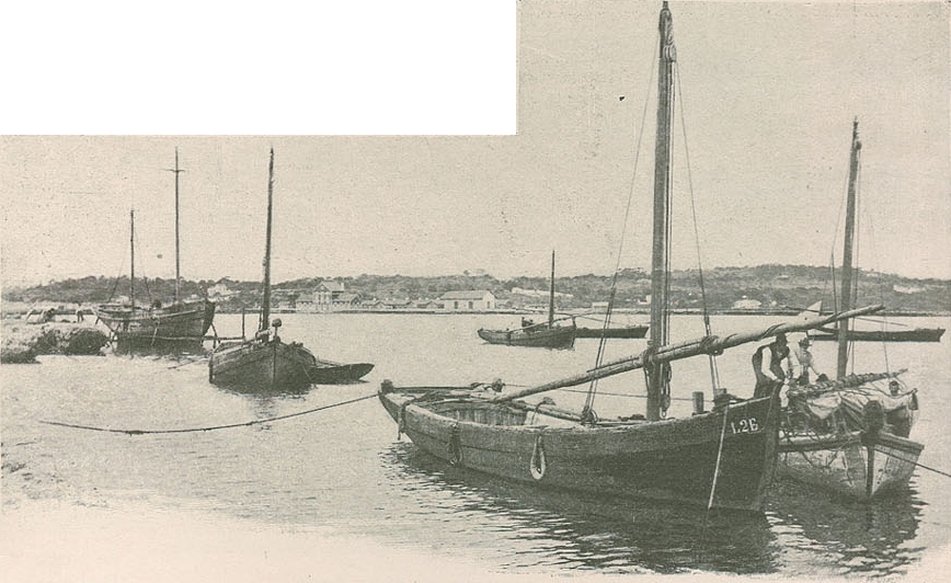 Bensafrim river in the 1910s, with the railway station being built in the background, in the city of Lagos, Portugal. This image was published on the Ilustração Portuguesa magazine No. 589, of the 5th June 1917, and scanned by the Hemeroteca Municipal de Lisboa.